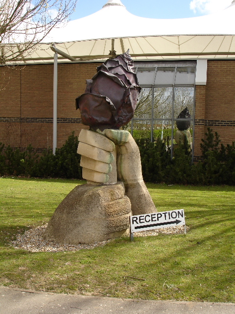 Julie Rose Stadium Symbol This symbol commemorates Julie Rose, an Ashford AC athlete who was killed in an air crash returning from a Cross Country meet in America